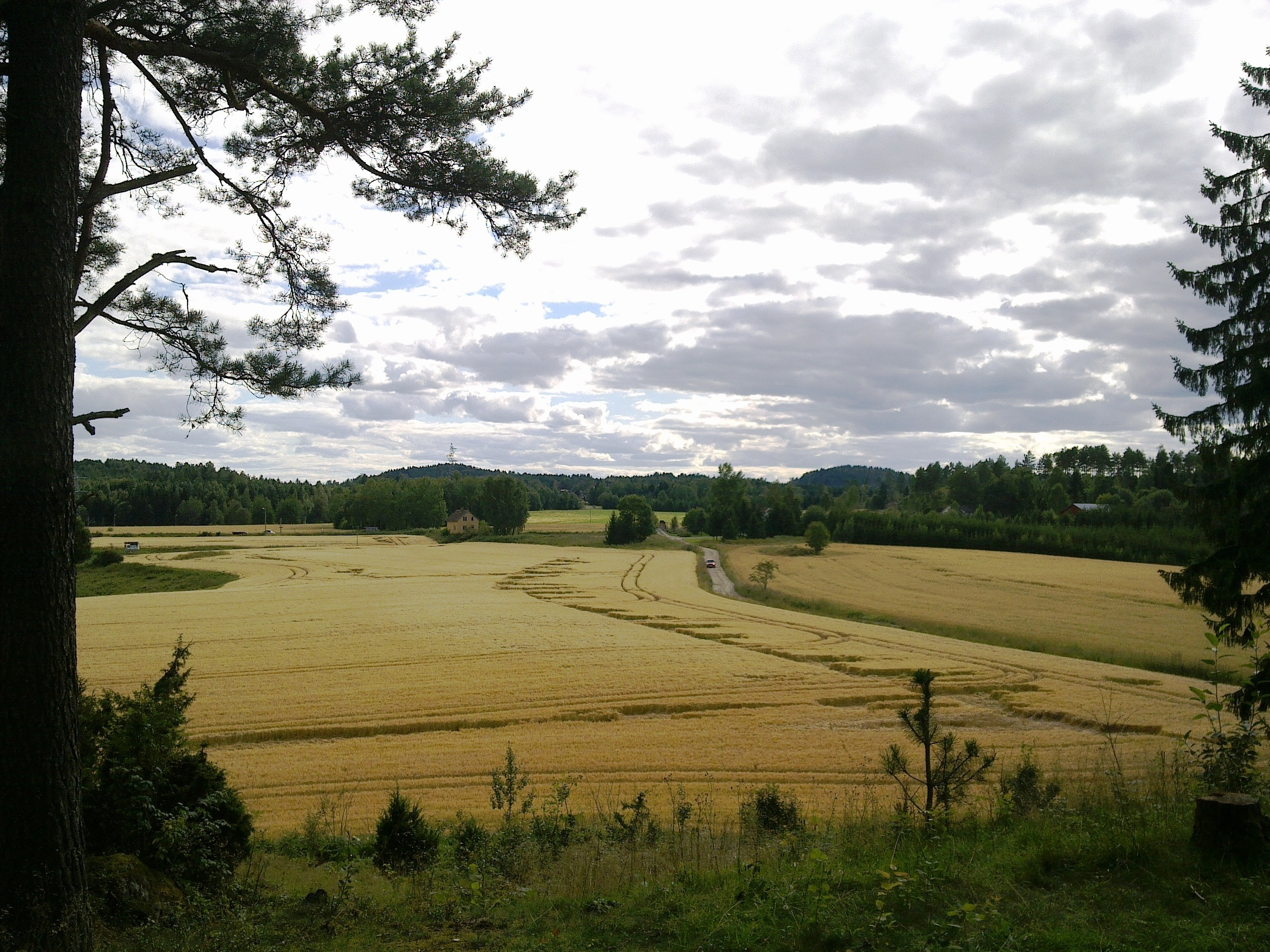 Looking out over the field from which Swedish troops launched assaults against the Norwegian forces at Langnes skanse.